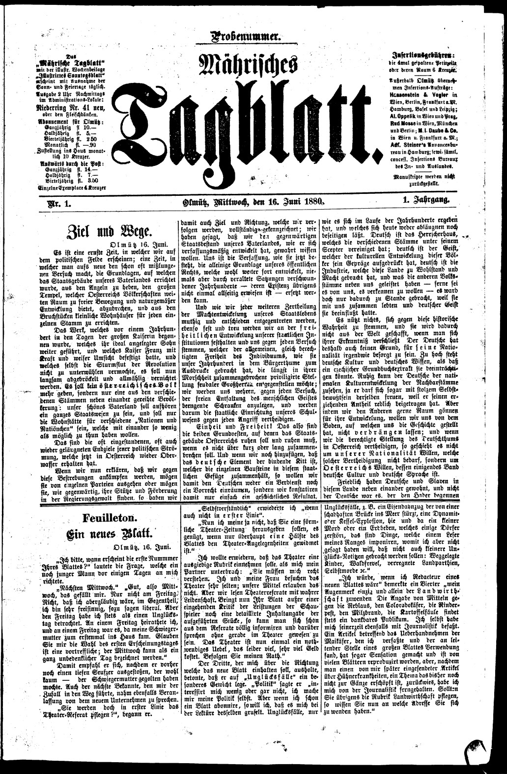 old austrian newspaper